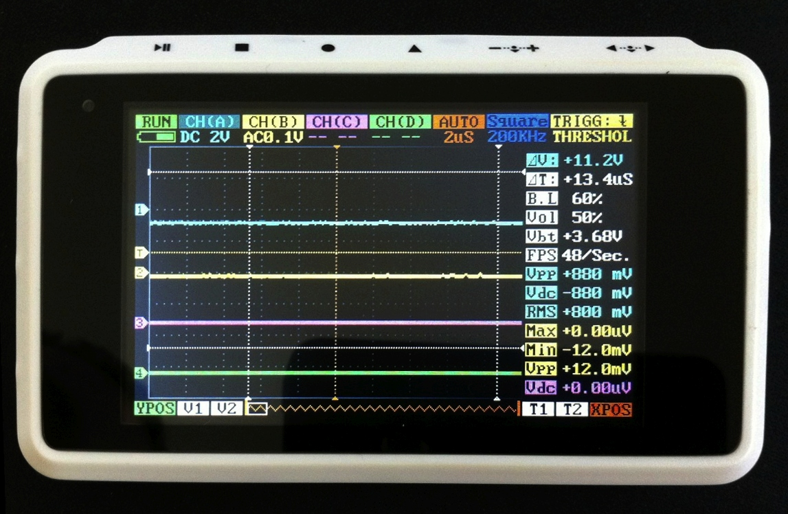 a open DSO